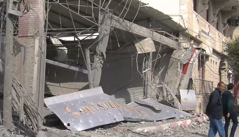 Destruction in Gaza after Israeli bombardment, part of Operation Pillar of Defense